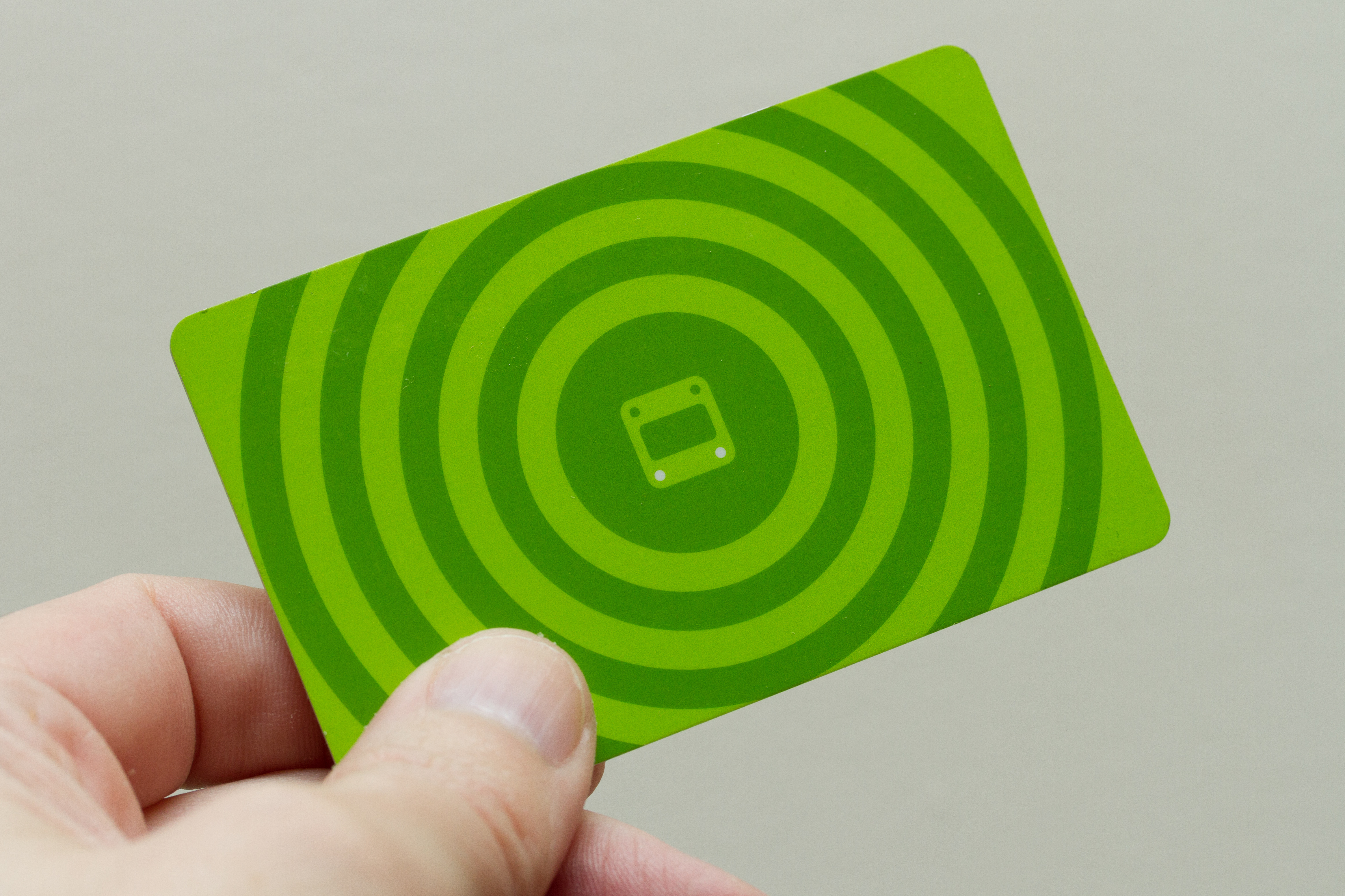 HSL travel card for use on public transport services in Helsinki, Espoo, Kauniainen, Vantaa, Kerava, Sipoo and Kirkkonummi.